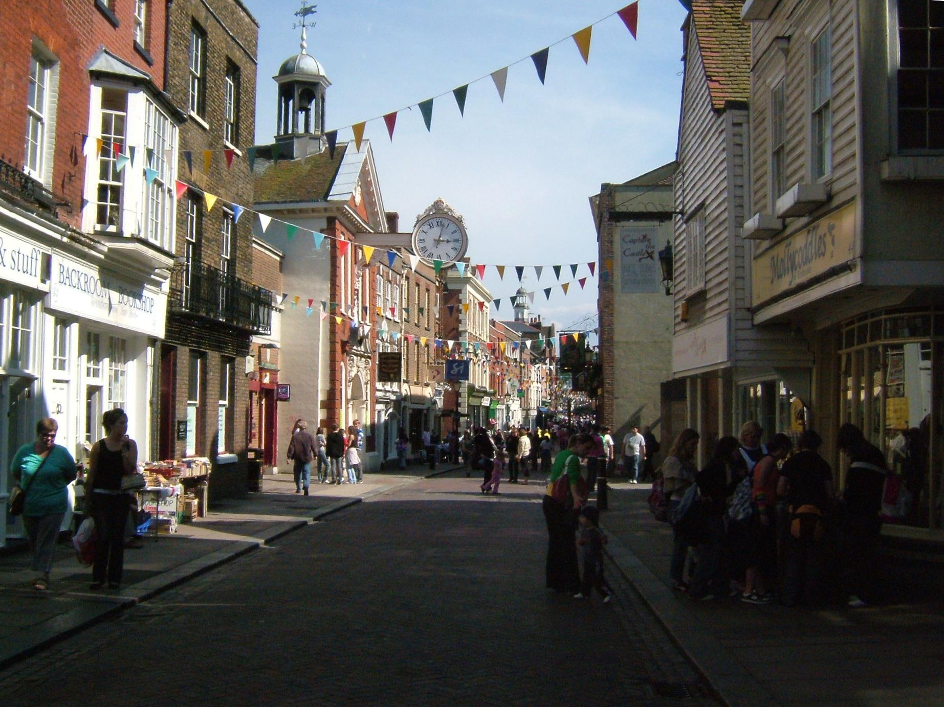 Rochester High Street,taken on the afternoon of the Summer Dickens Festival June 2007, in Rochester, Kent. The festival has happened for 29 years, and the participants faithfully create the costume of the time. - Google Maps - Google Earth